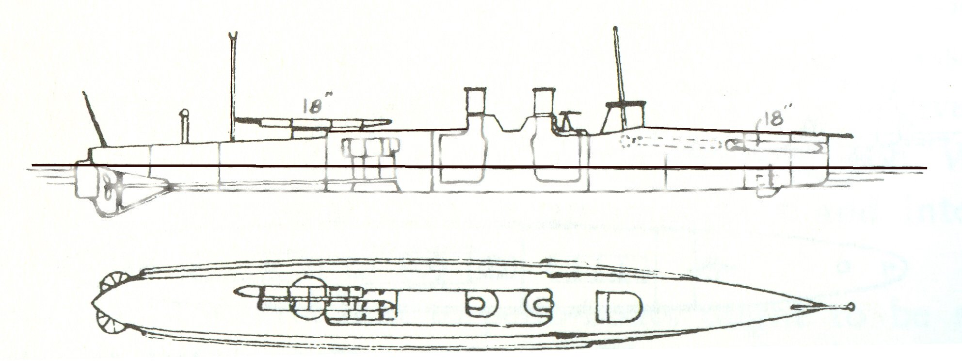 Danish Torpedo Boat Ormen. Built by Orlogsværftet, Denmark in 1907.